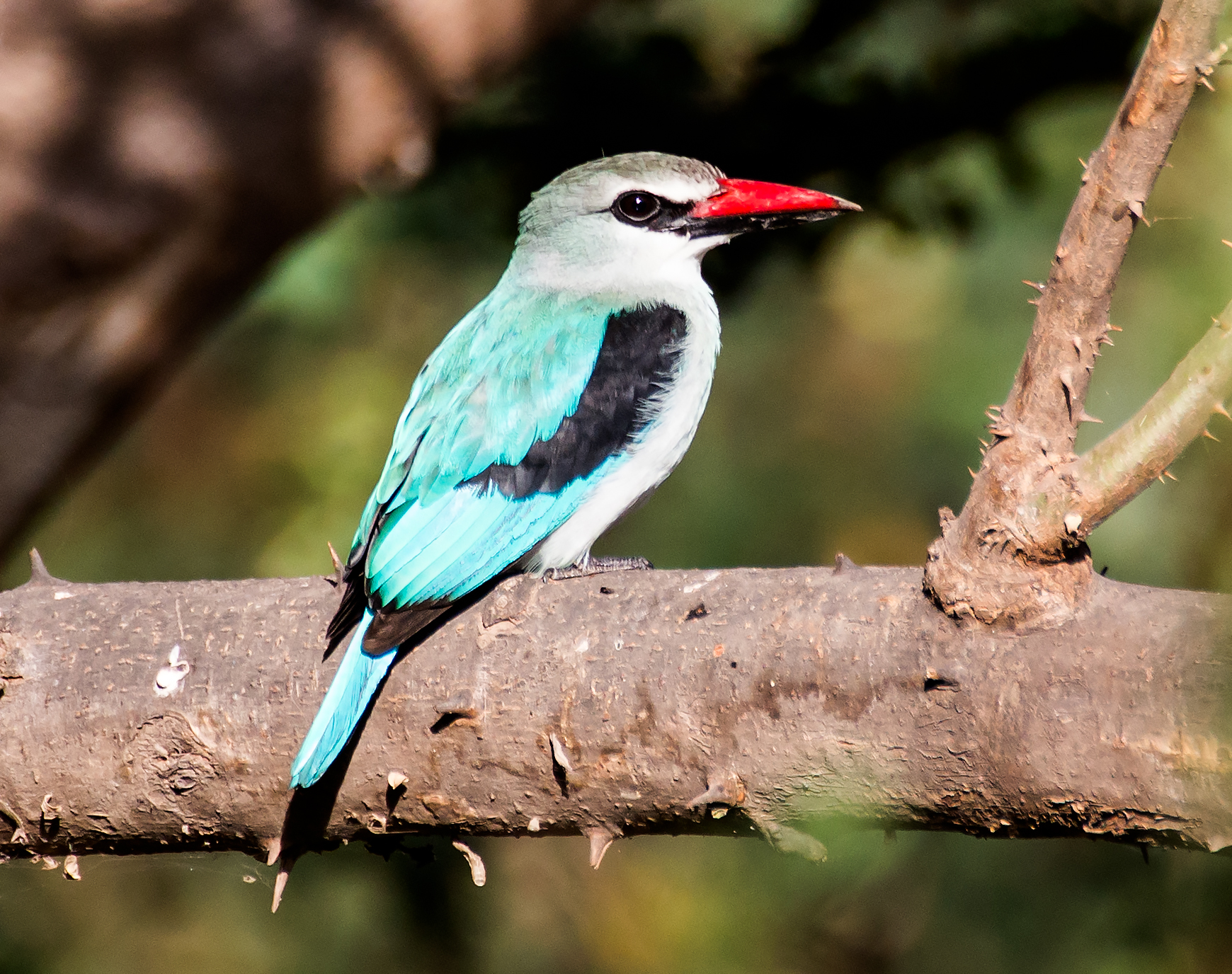 Woodland kingfisher in Ethiopia